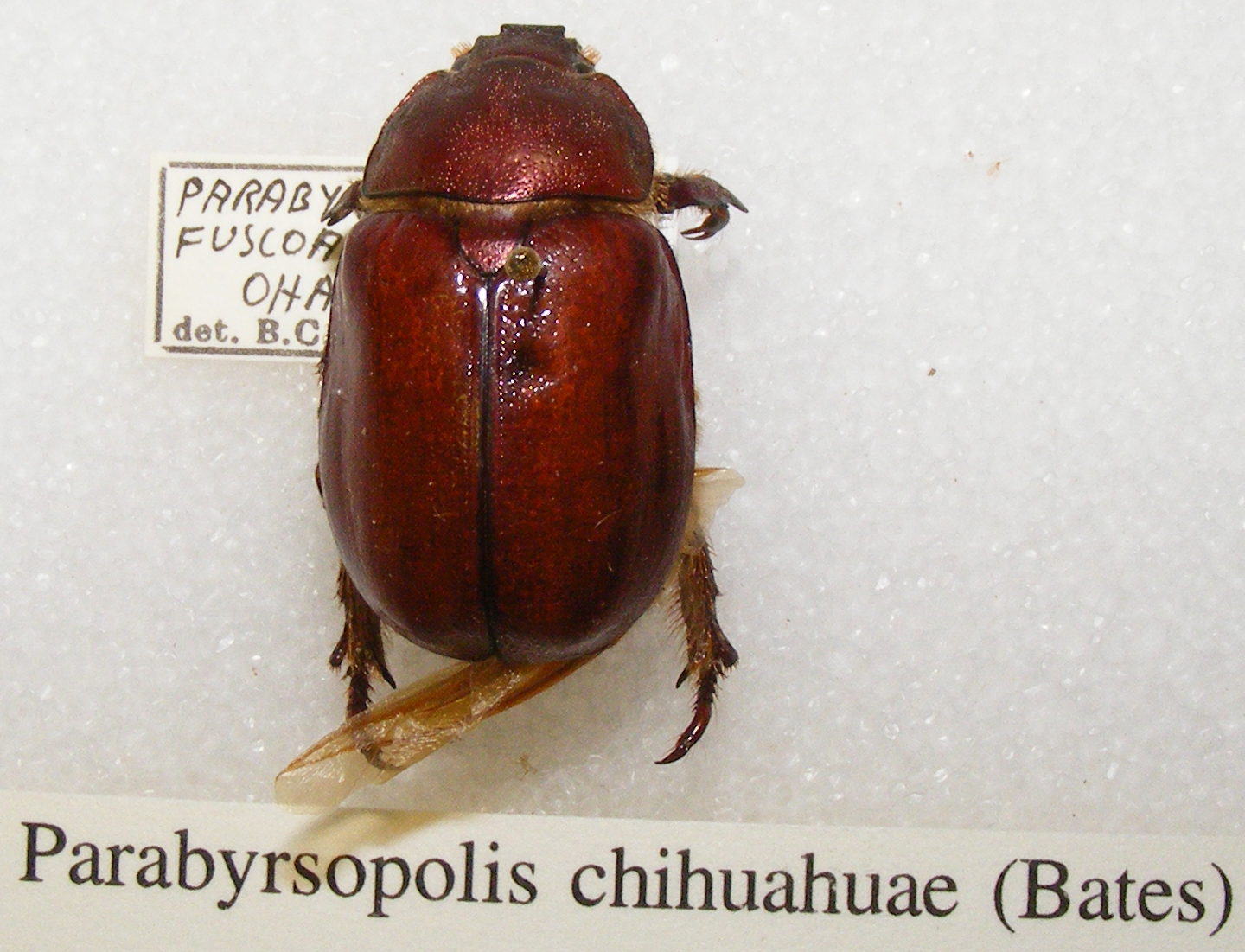 Parabyrsopolis chihuahuae adult from the Texas A&M University Insect Collection